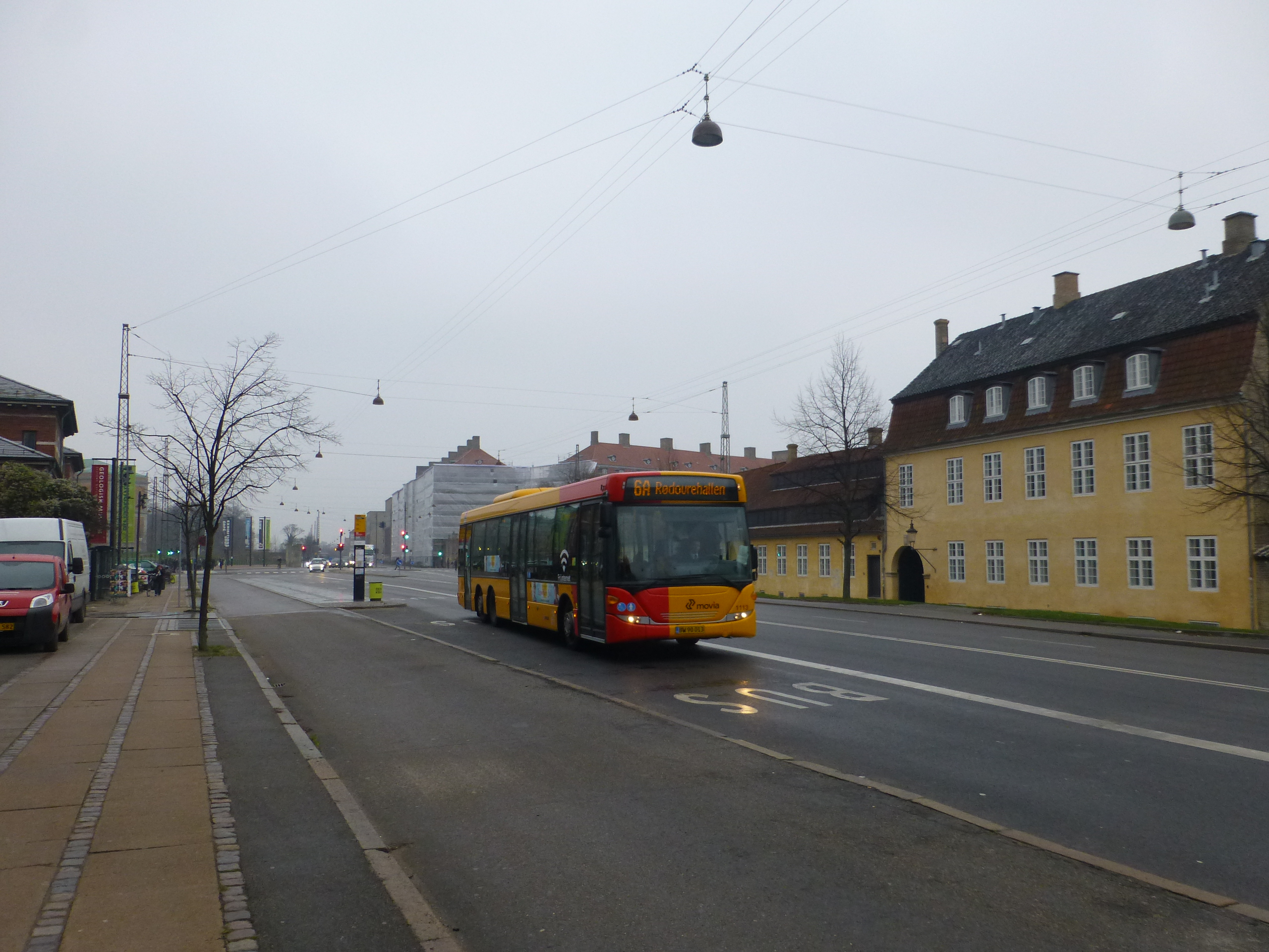 A part of the bus rapid transit (BRT) Den kvikke vej between Nørreport Station and Ryparken station without BRT standard. Movia bus line 6A on Øster Voldgade.